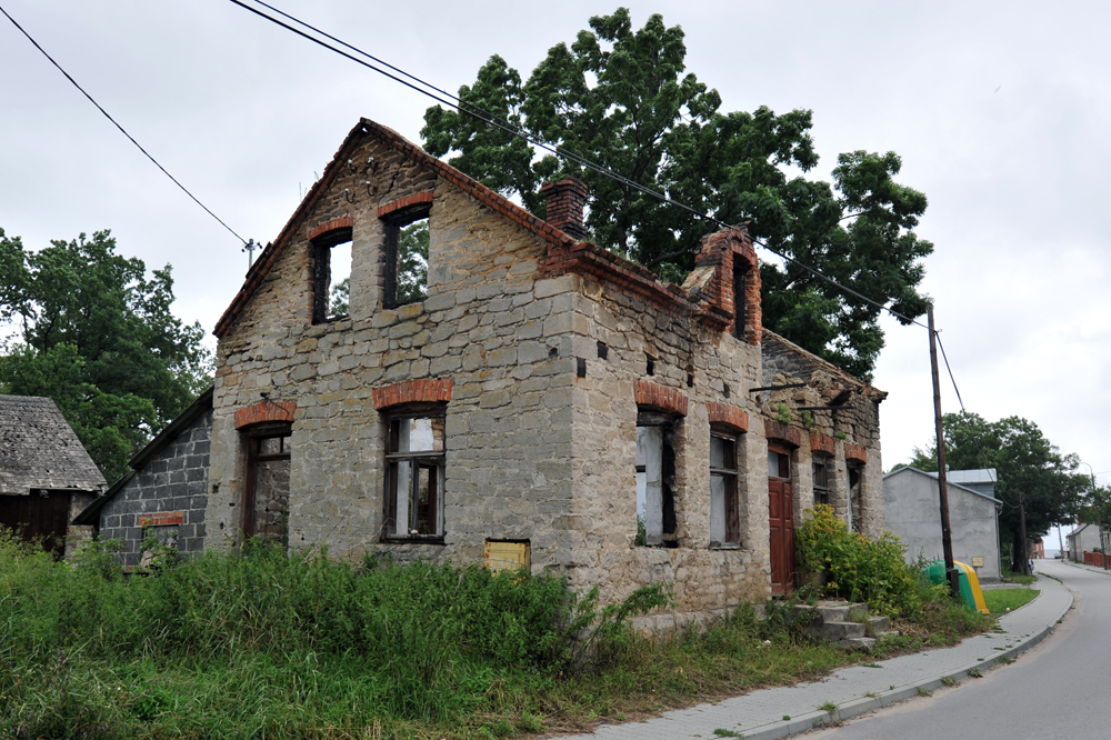 A house in village Dwikozy near Sandomierz in Poland where writer Wiesław Myśliwski was born in 1932.